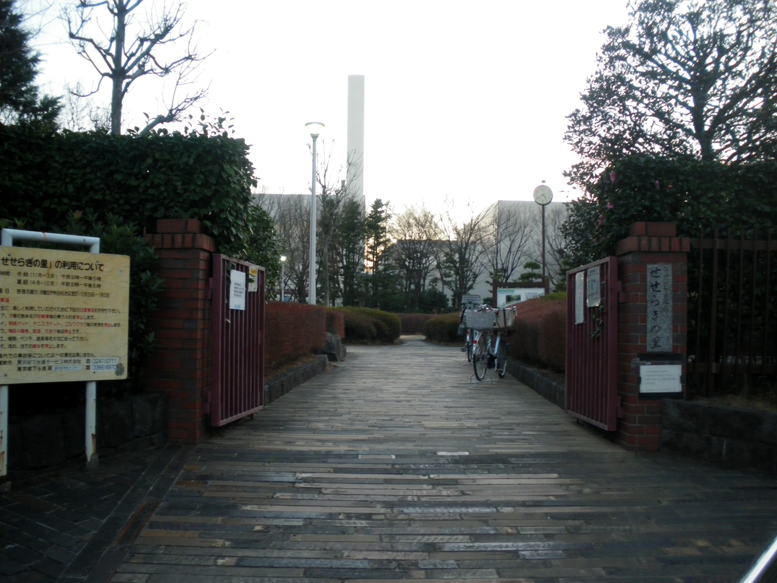 A photo of an entrance of Seseragi no sato park,kamiochiai,Shinjuku-ku,Tokyo,Japan.